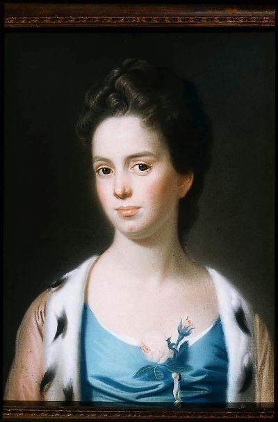 Mrs. Joseph Barrell (Hannah Fitch). about 1771. By John Singleton Copley, American, 1738–1815. 60.64 x 45.72 cm (23 7/8 x 18 in.). Pastel on paper mounted on canvas. Museum of Fine Arts, Boston.